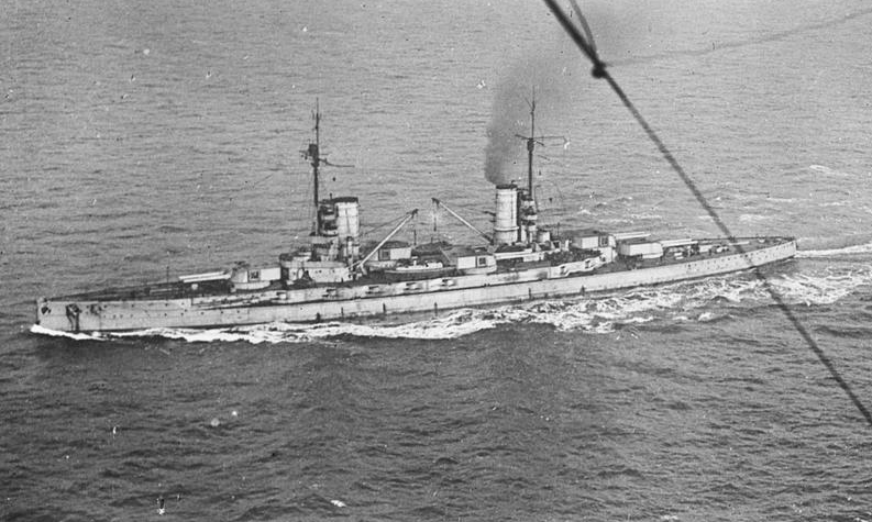 the battleship steaming to Scapa Flow for internment in accordance with the terms of the Armistice.